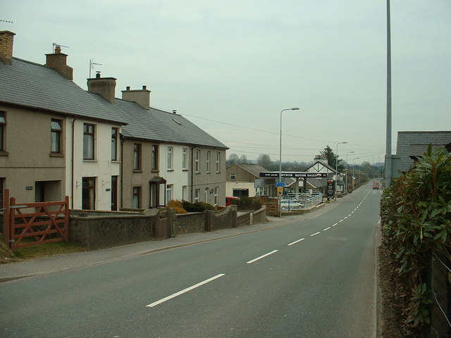 Bryncir Village. On the A487